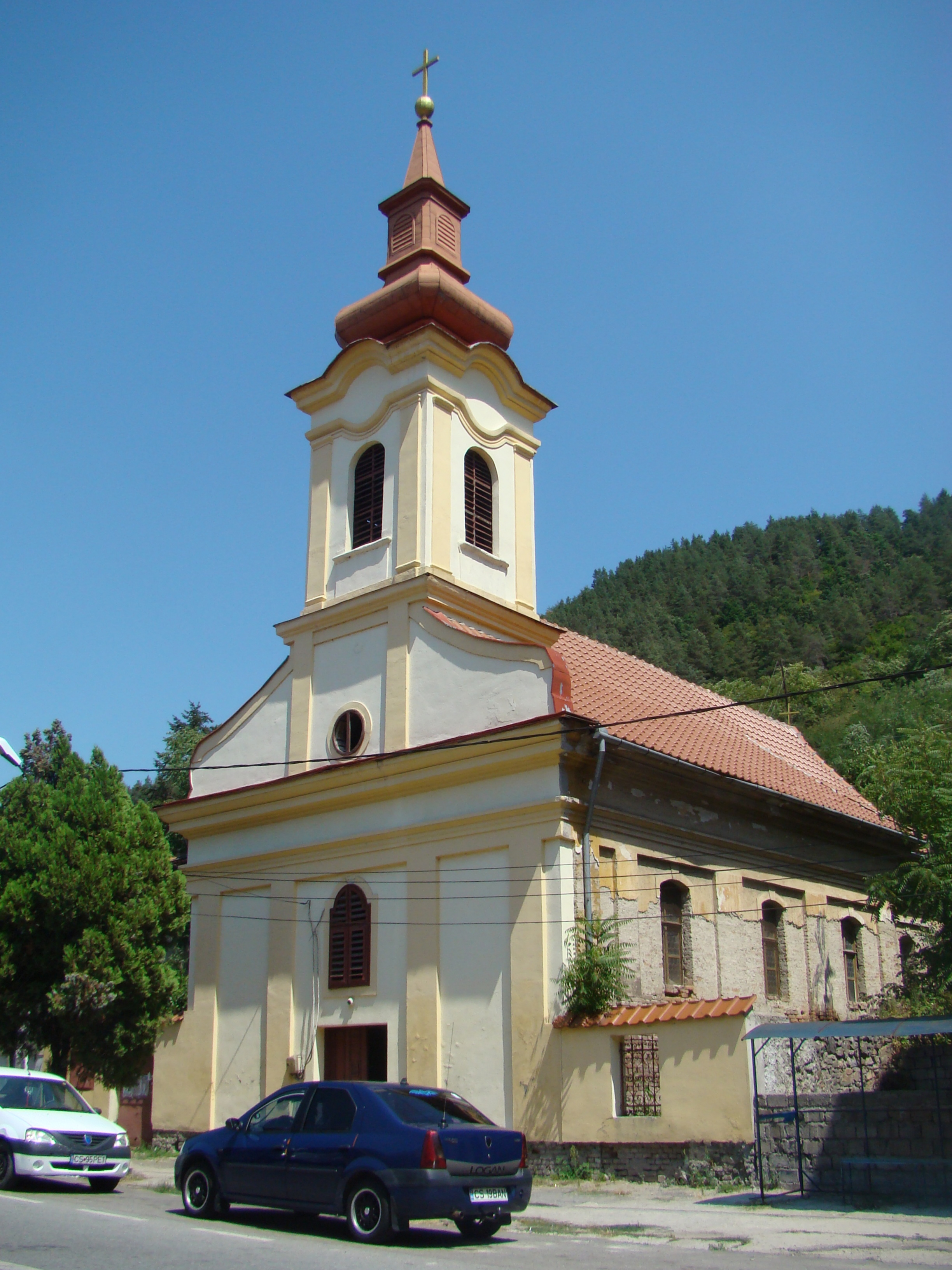 Roman Catholic church in Mehadia, Caraș-Severin county, Romania